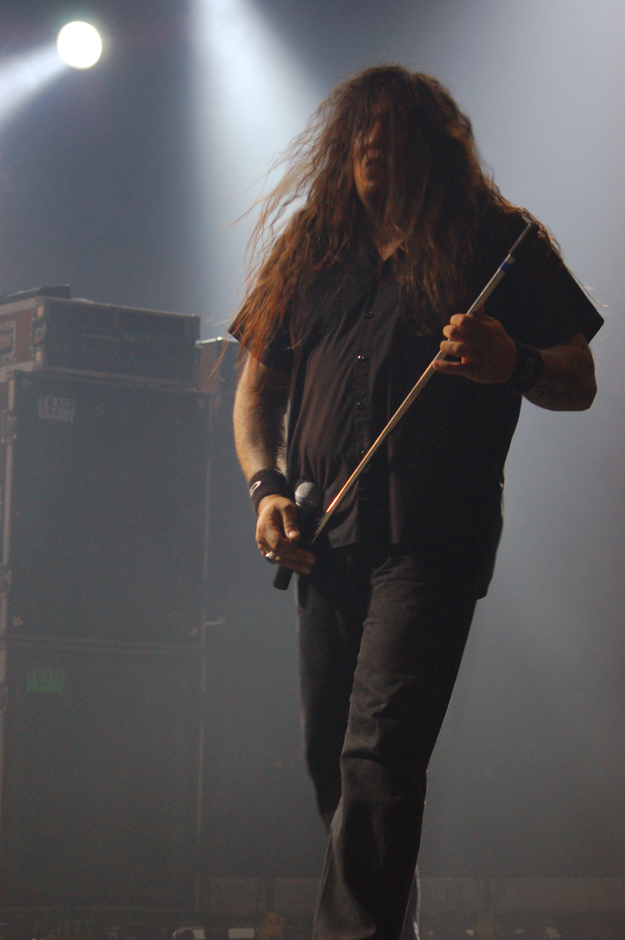 Chuck Billy from Testament during Metalmania 2007 festival